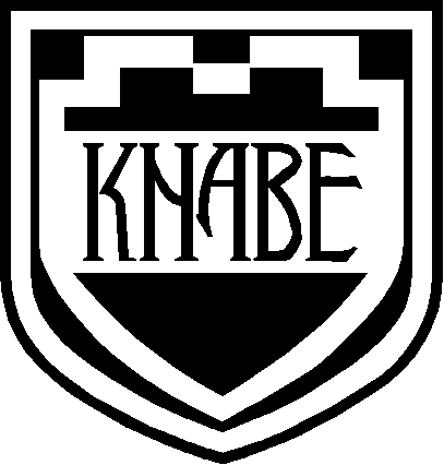 Wm. Knabe & Co. shield logo